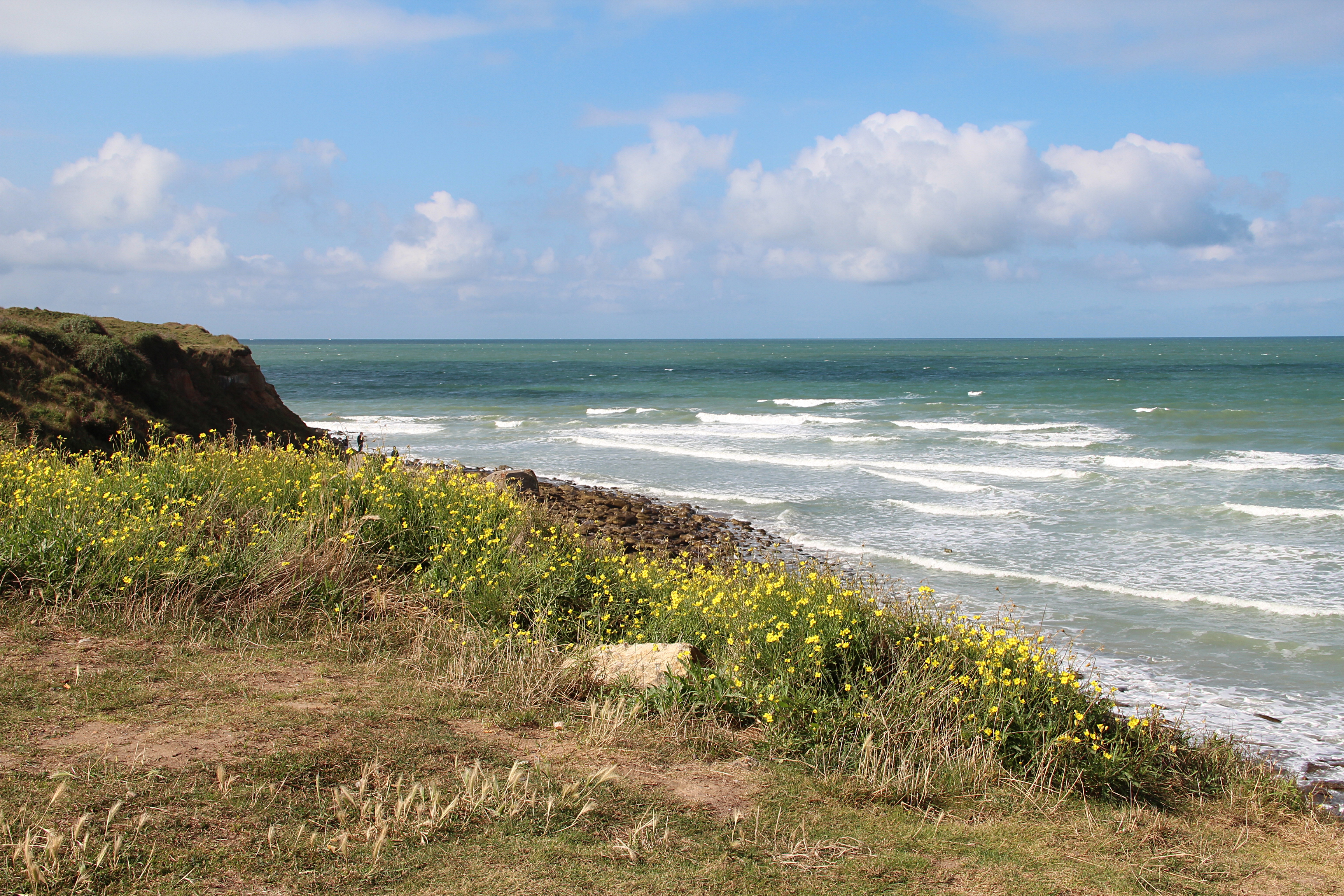 The Pointe aux Oies and the Chanel in Wimereux, Pas-de-Calais (France).